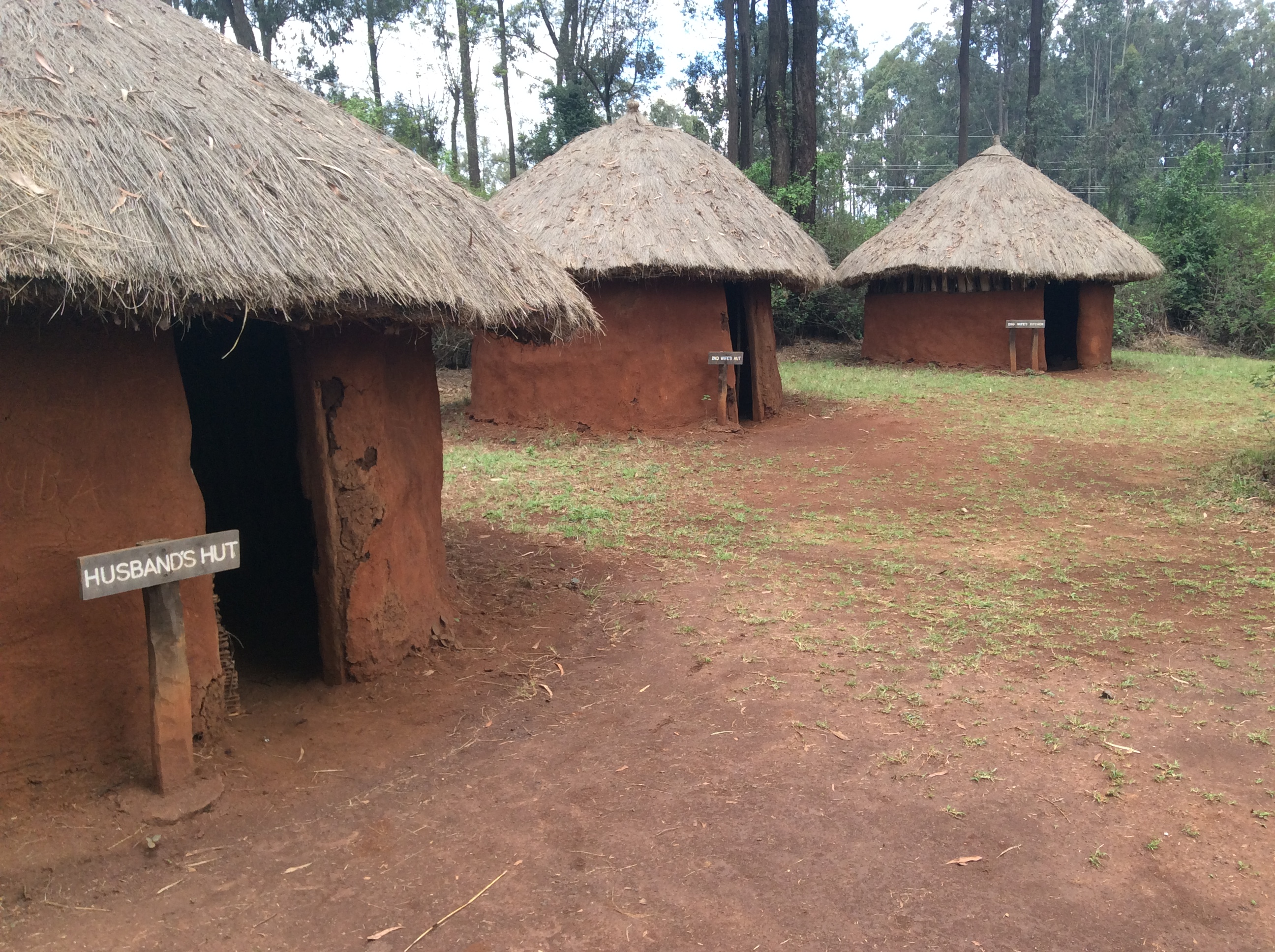 Reconstructed traditional homestead of the Meru (one of the 42 tribes of Kenya). This replicas are located and managed by the Bomas of Kenya, Nairobi. This is an image of food from Kenya